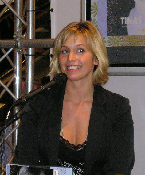 Swedish TV personality and cook, Tina Nordström, during the 2006 Gothenburg Bookfair